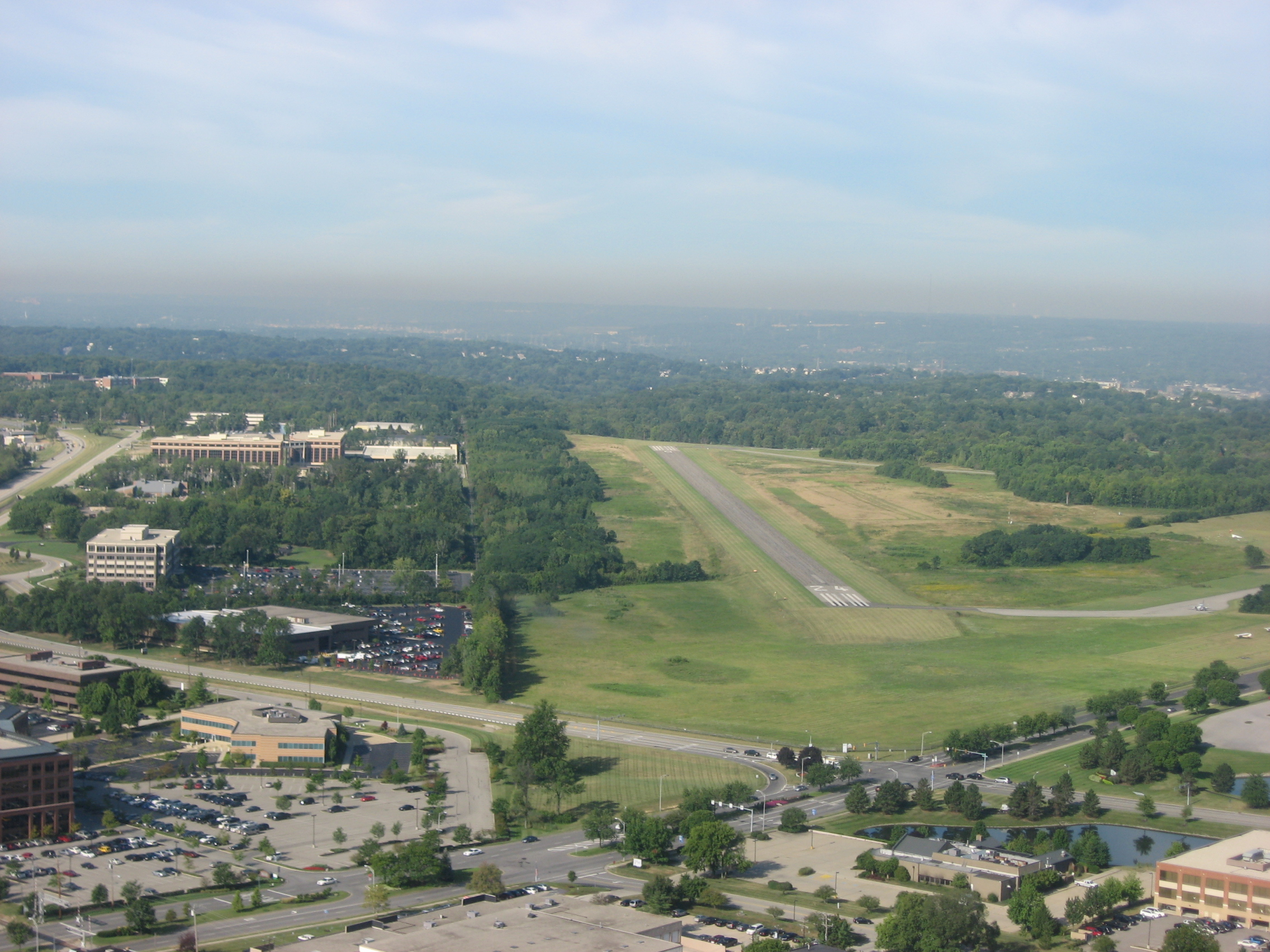 On base leg about to land at the Cincinnati-Blue Ash Airport in the city of Blue Ash, a Cincinnati suburb in Hamilton County, Ohio, United States. Picture taken from a Diamond Eclipse light airplane at an altitude of 1,300 feet MSL (450 feet AGL) and a bearing of approximately 235º.